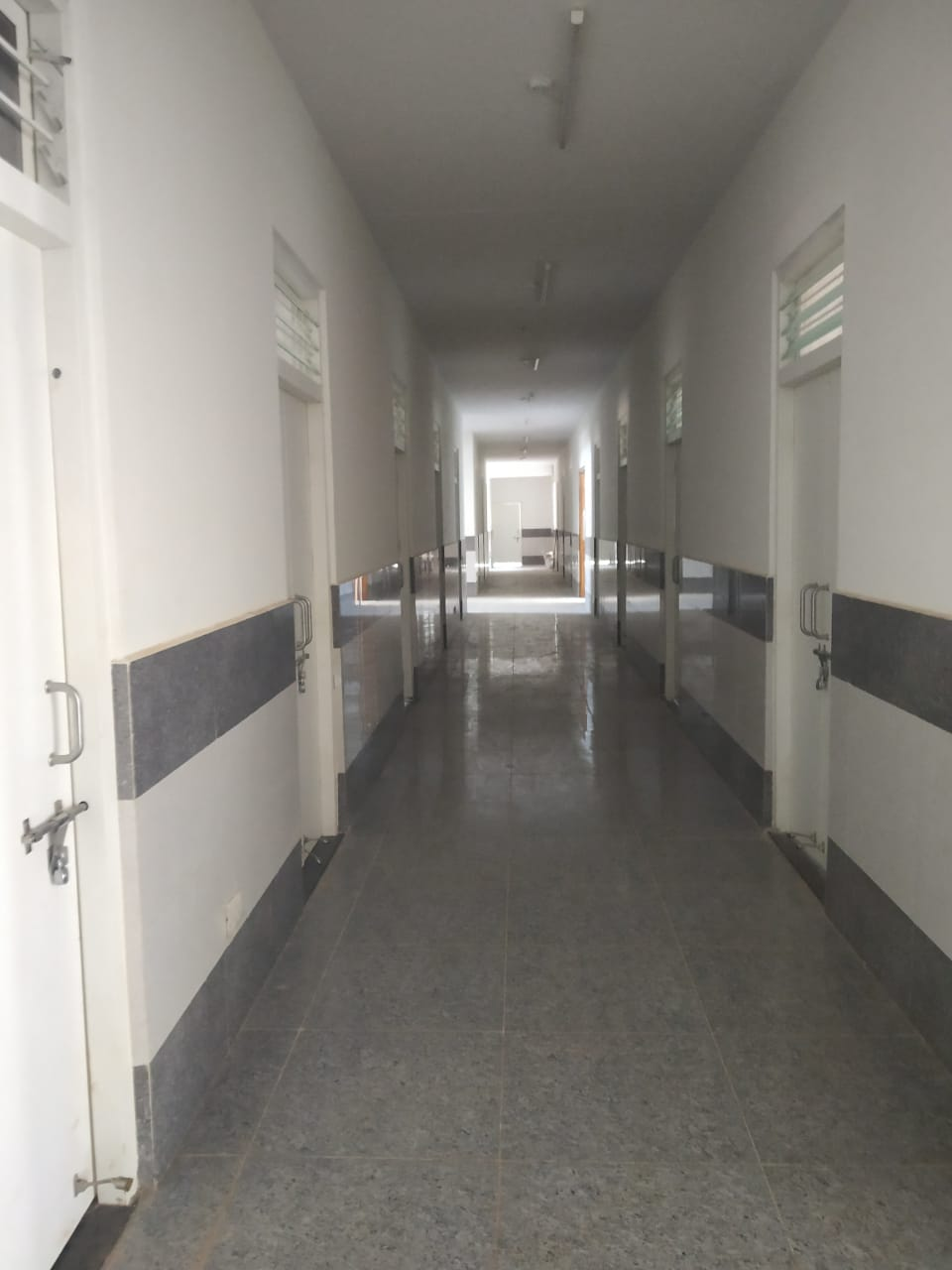 Nit TDD Hostels Inside view